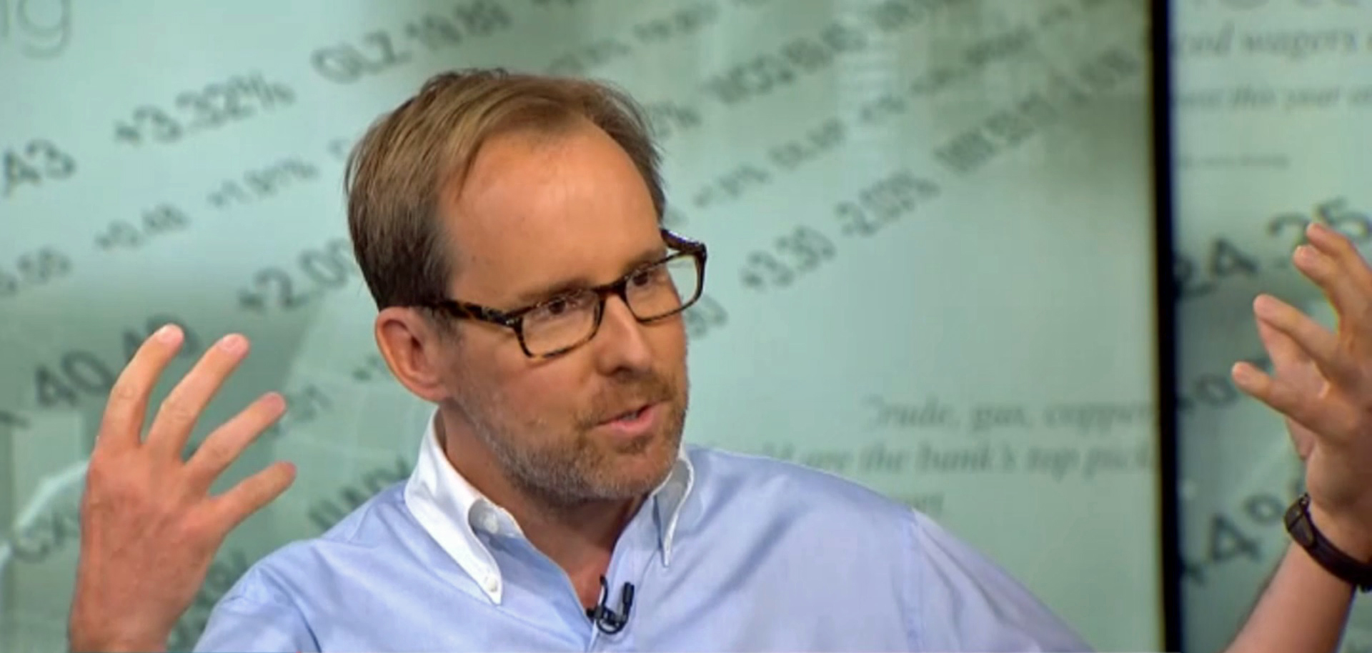 Photo of hedge fund manager Mark Spitznagel, taken on set